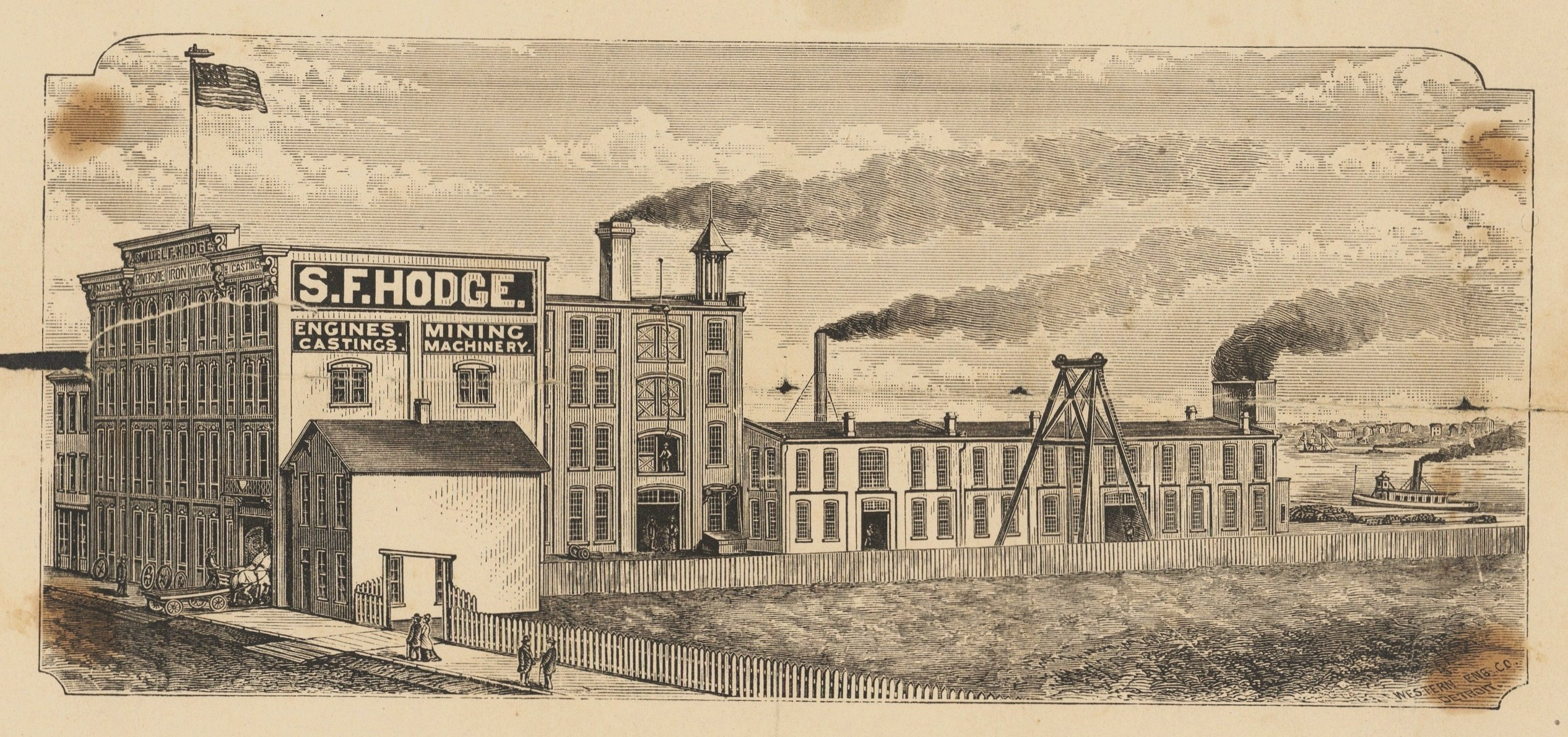 Samuel F. Hodge & Company factory, Detroit, Michigan